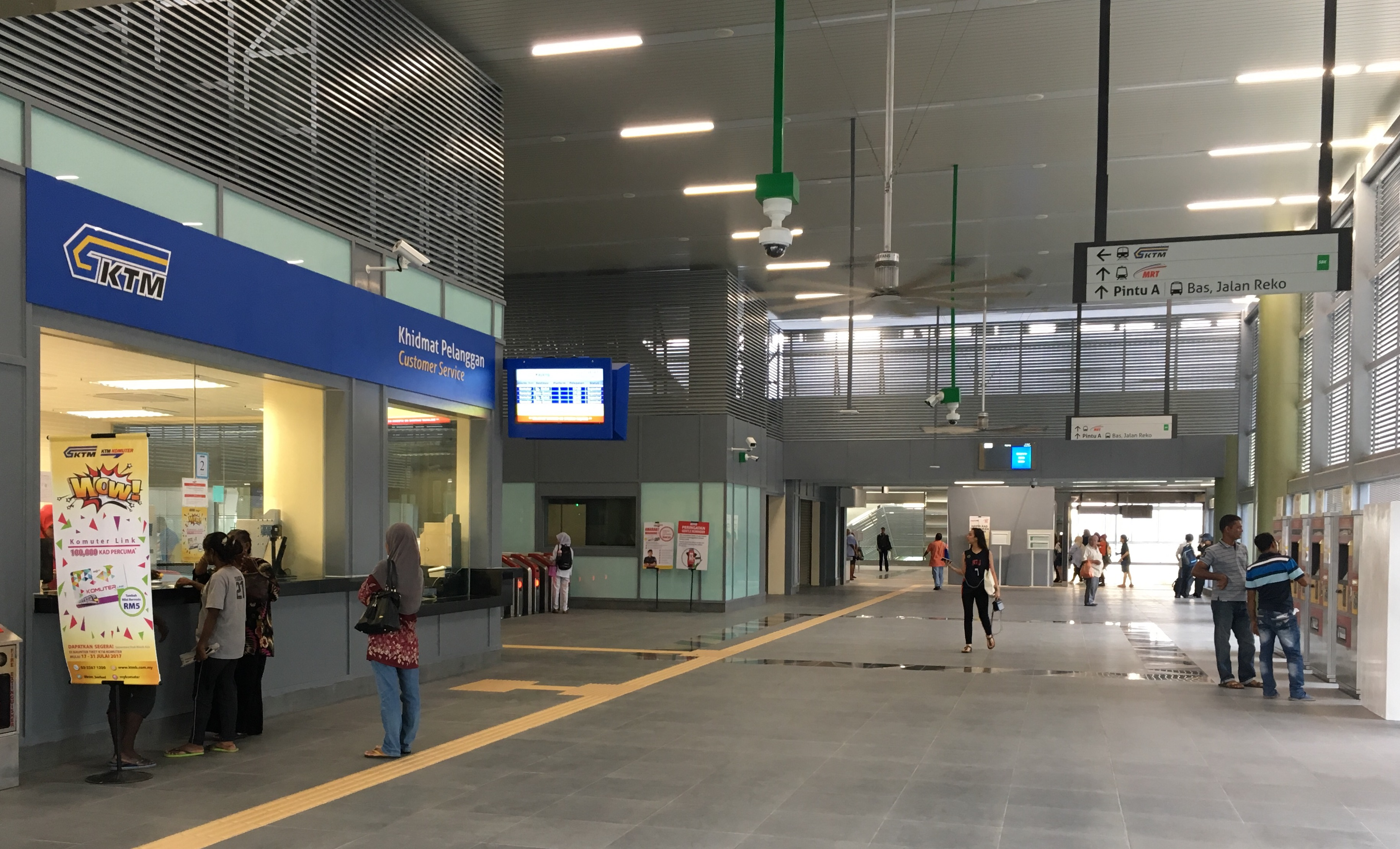 KTM and MRT common concourse of the Kajang Station with the KTM customer service counter at foreground left.